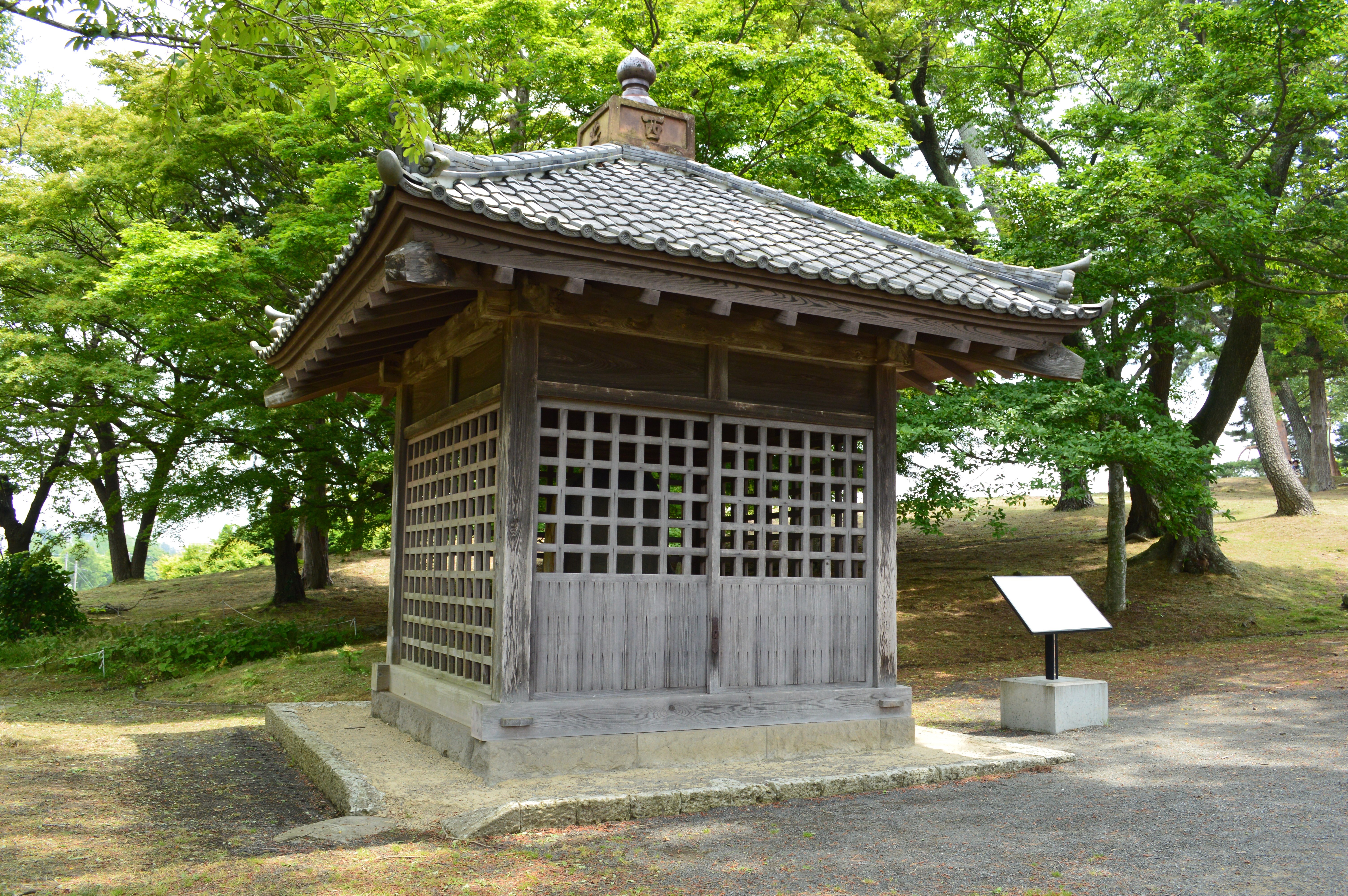 Pod of Tagajō Stele in Tagajō, Miyagi Prefecture